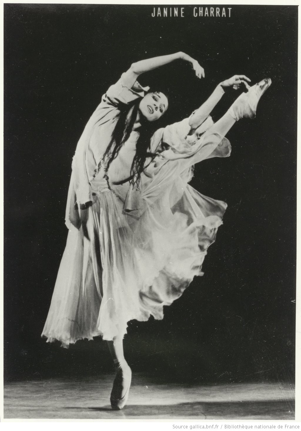 Janine Charrat, French dancer, choreographer and ballet director (1924-2017)